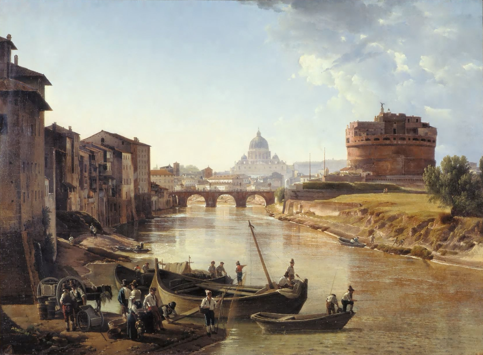 Sylvester Shchedrin, Rome, view of the Tiber river and the Castel Sant'Angelo, about 1823/25.